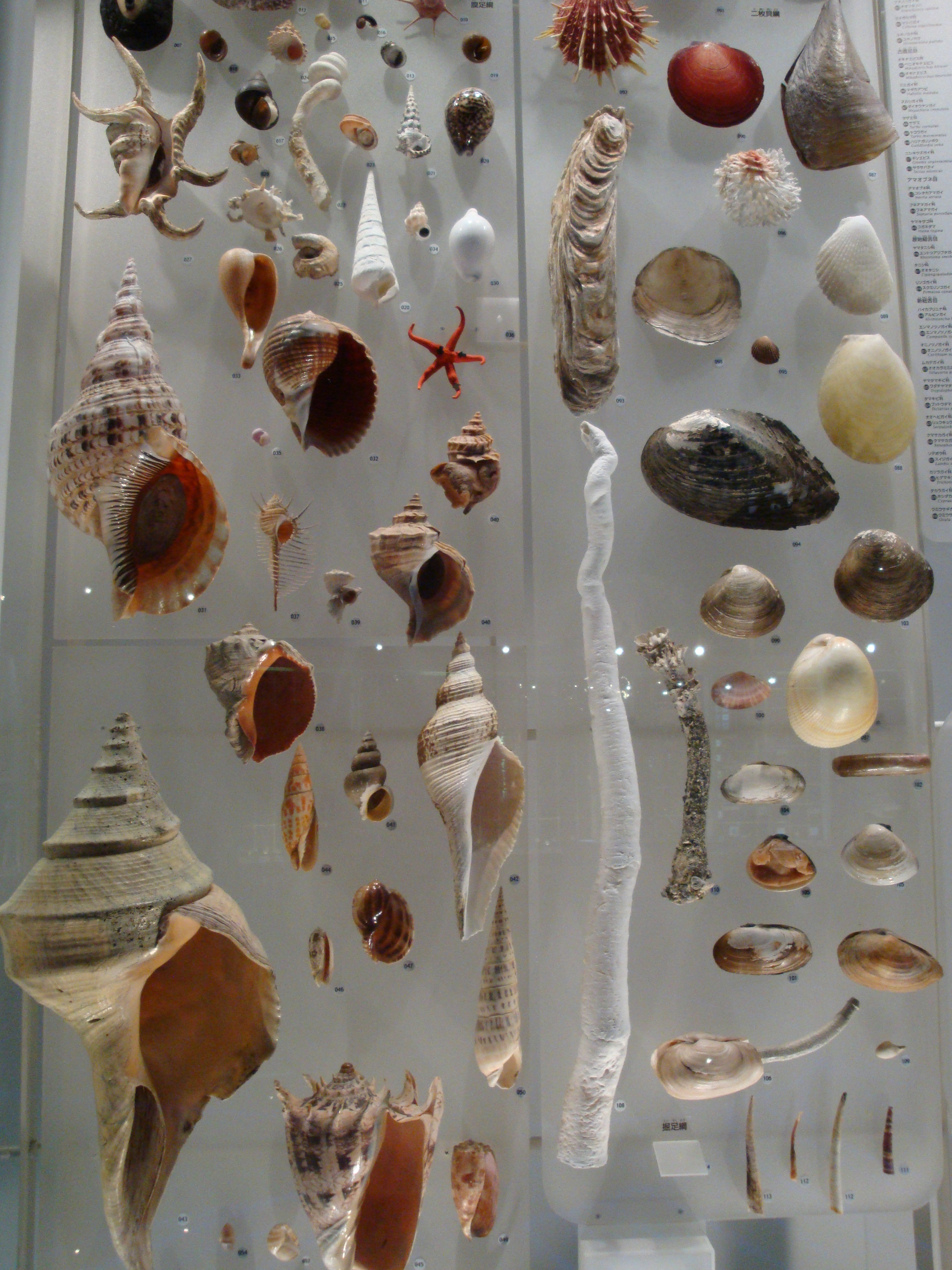 Global Gallery